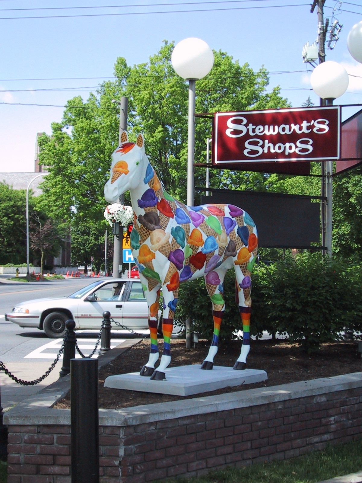 Scoops was created as part of the Horses, Saratoga Style, 2002 public art event. Sarah Doane was the artist and the corporate sponsor was Stewart's Shops.